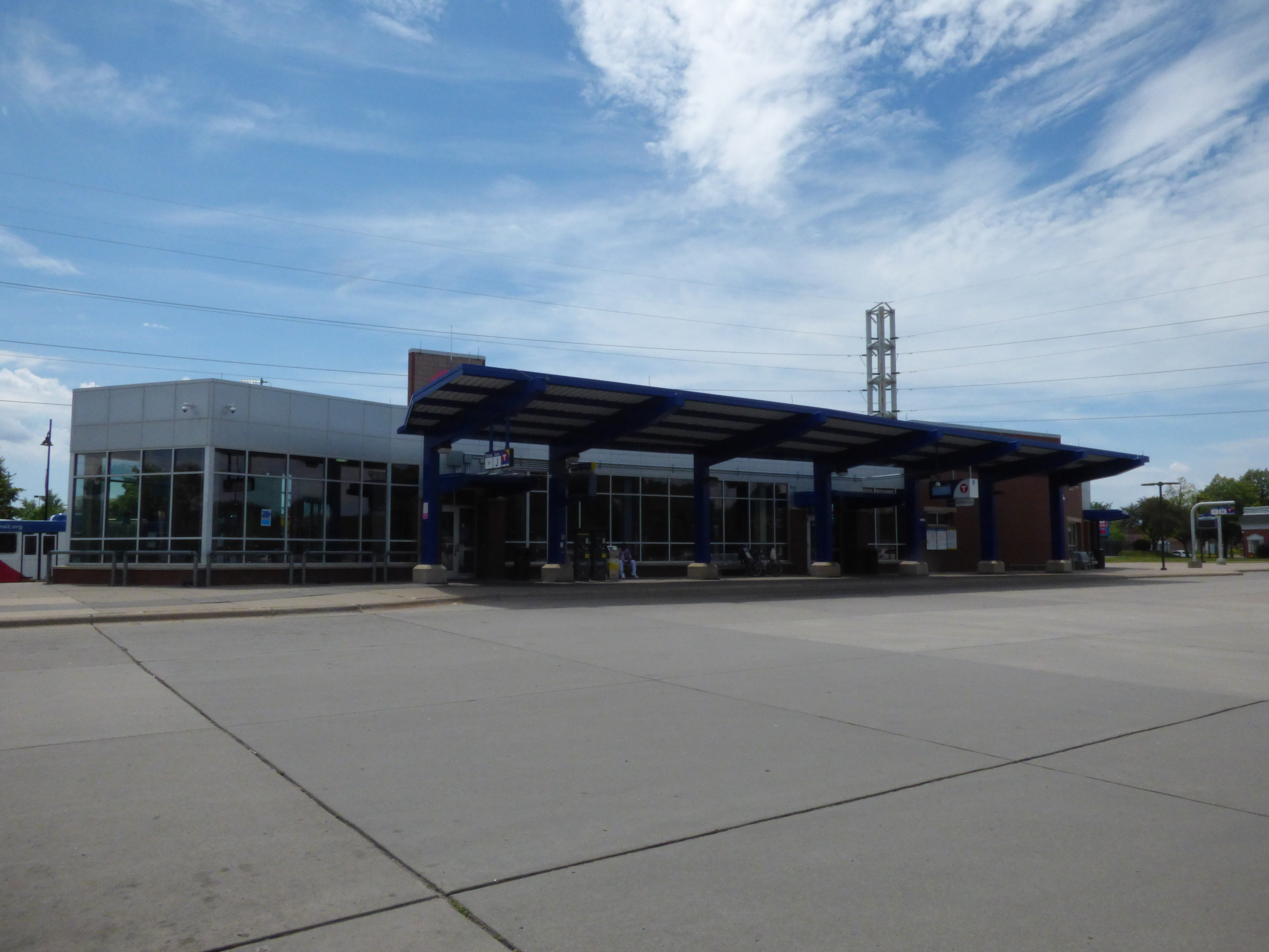 Brooklyn Center Transit Center on June 21, 2020.